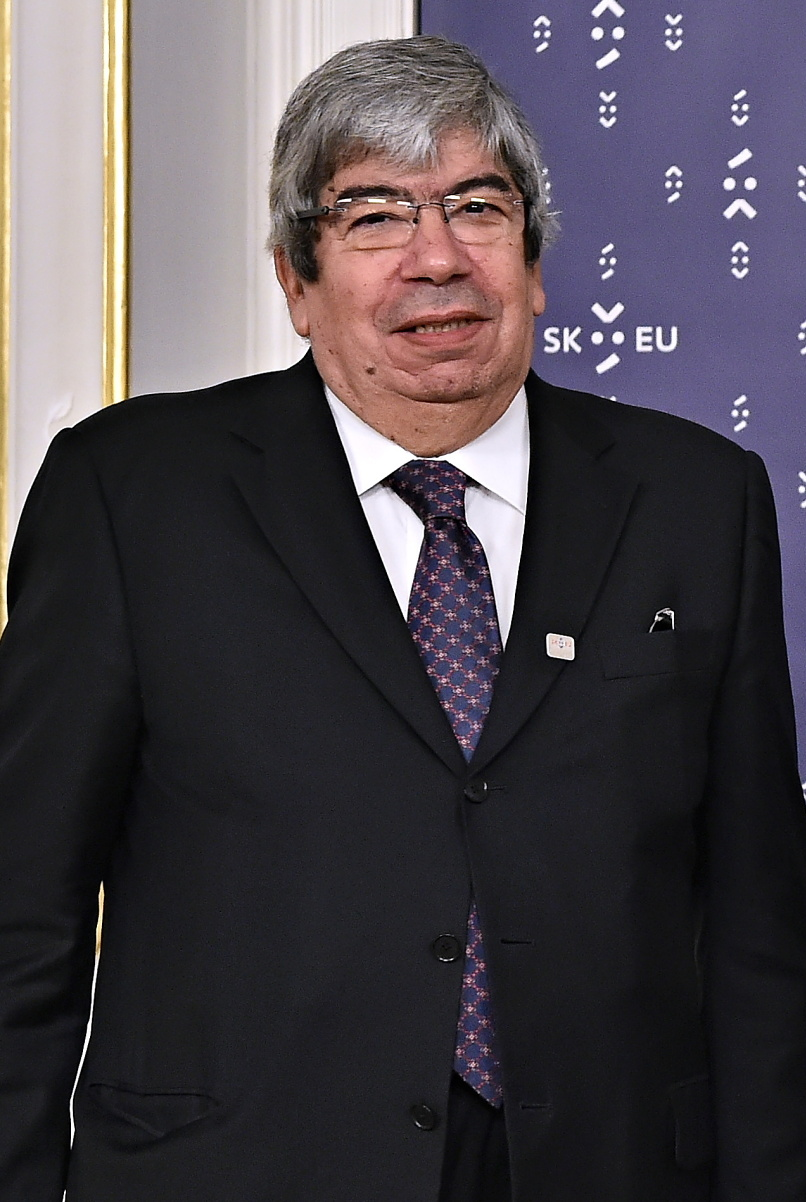 Assembly of the Republic of Portugal Mr Eduardo Ferro Rodrigues, President - National Council of the Slovak Republic Mr Andrej Danko, Speaker Of The National Council of The Slovak Republic. Photo: Rastislav Polak.